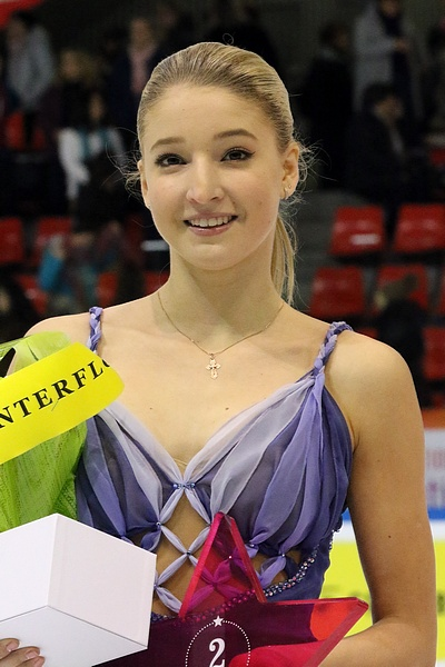 Maria Sotskova at the 2017 Internationaux de France - Awarding ceremony